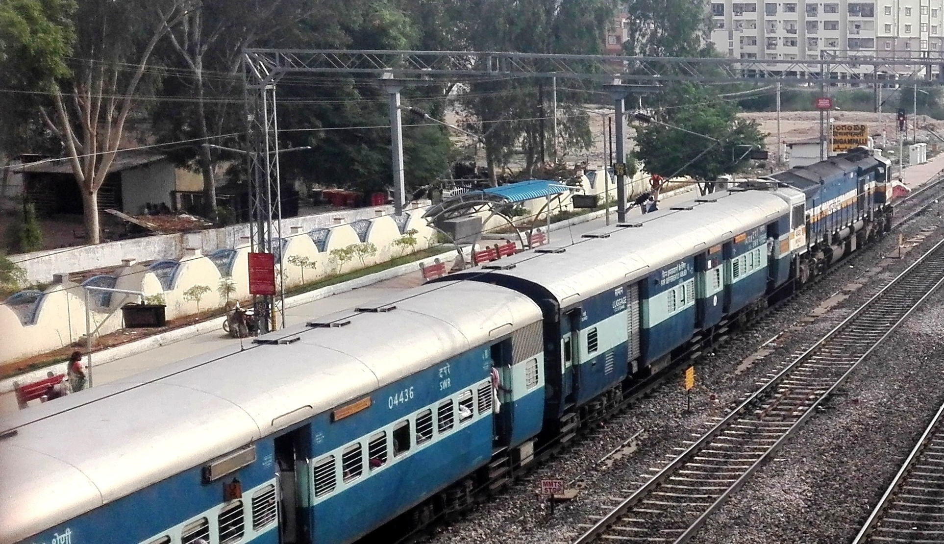 (Hubballi - Secunderabad) Express at Lingampalli Railway station